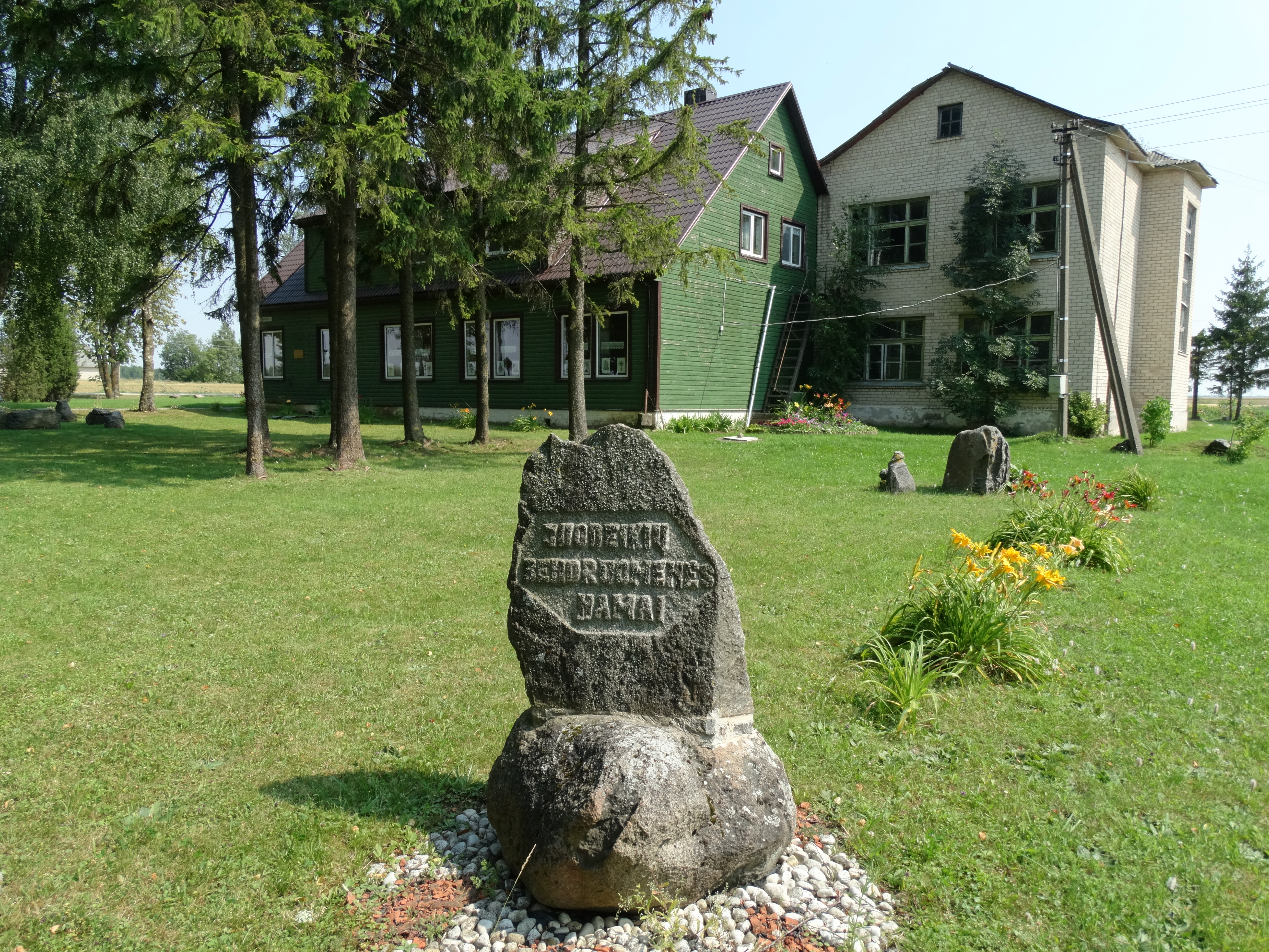 Community house in Juodeikiai, Joniškis district, Lithuania